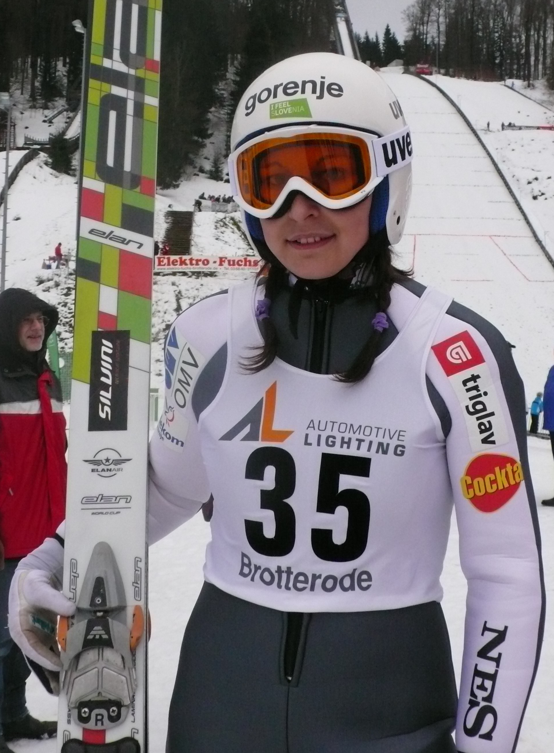 Anja Tepeš